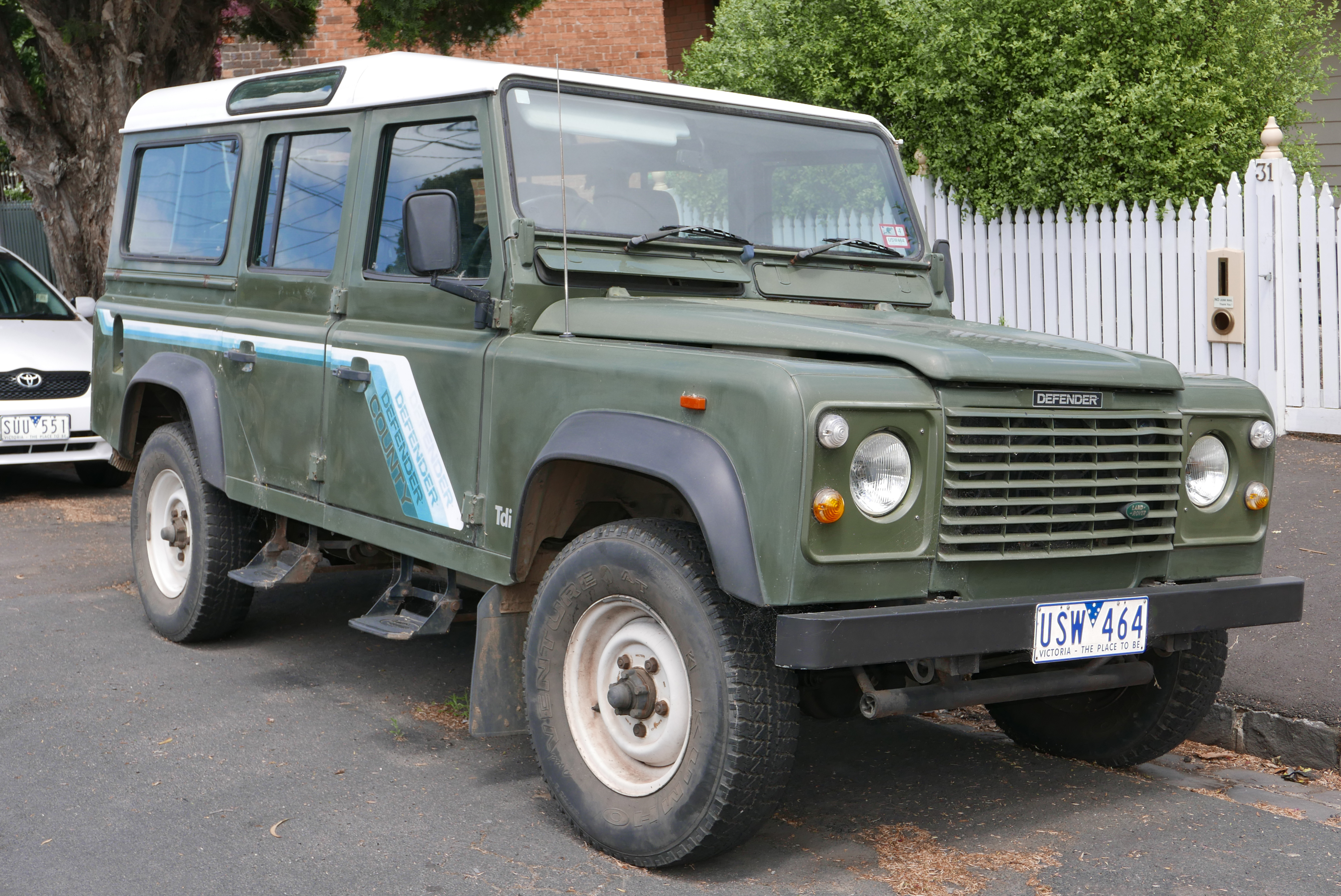 1991 Land Rover Defender 110 Tdi 5-door wagon. The date discrepancy with the vehicle registration information below suggests this may be a grey import. Photographed in Brunswick, Victoria, Australia. Vehicle registration enquiry results Jurisdiction Victoria Registration USW464 Chassis code SALLDHMF7HA904563 Engine code 11L11863A Compliance date 1996-04 Year of manufacture 1991 (not a typo)